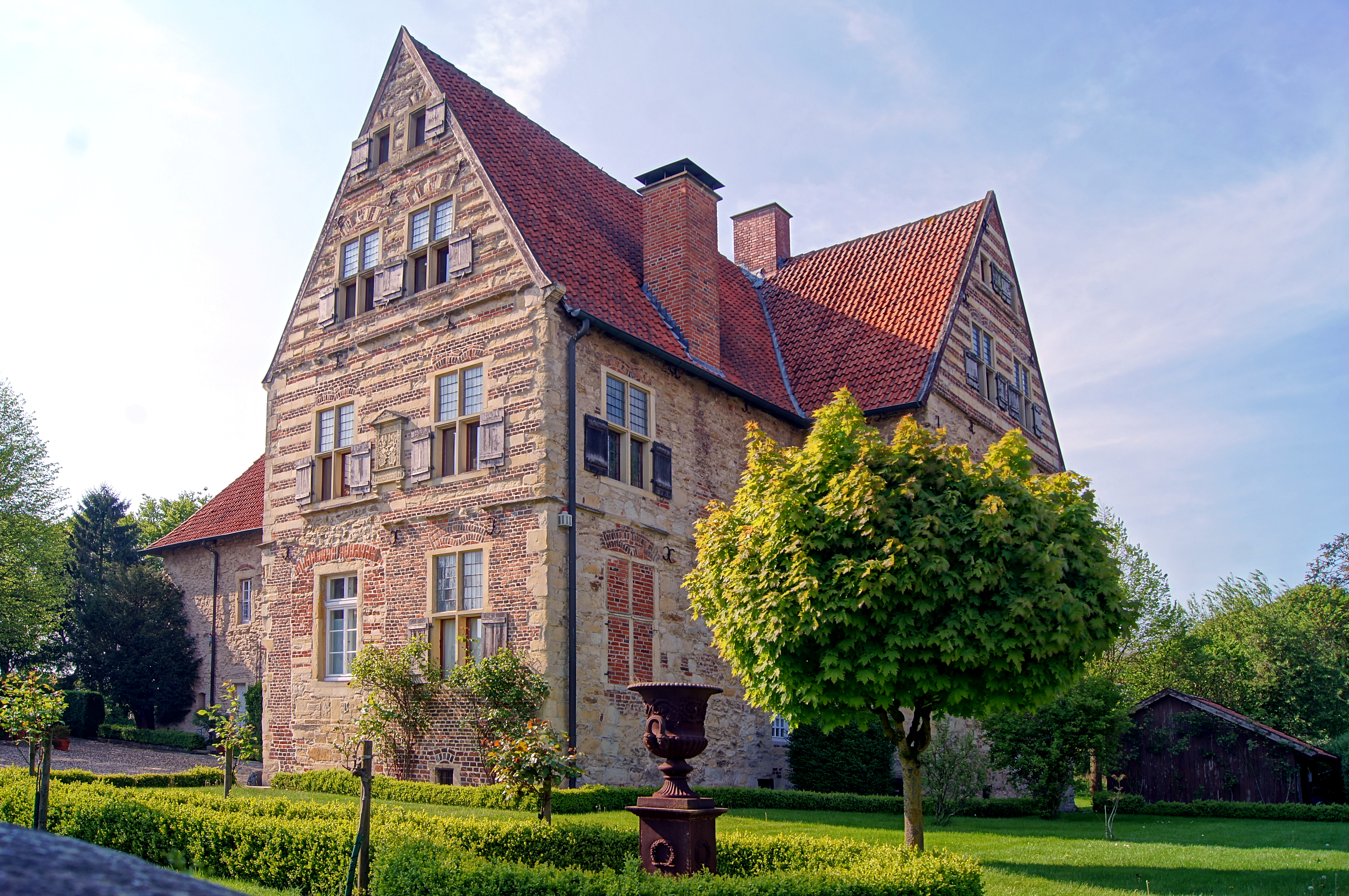 Merveldter Hof, a historic residence in Horstmar, district of Steinfurt, North Rhine-Westphalia, Germany. This is a photograph of an architectural monument. /09